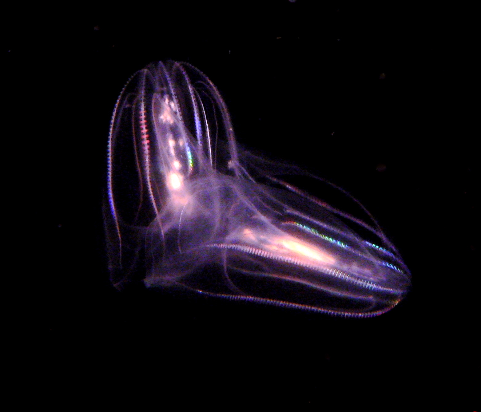 two frolicking comb jellies (Beroe spp.) at the Monterey Bay Aquarium.